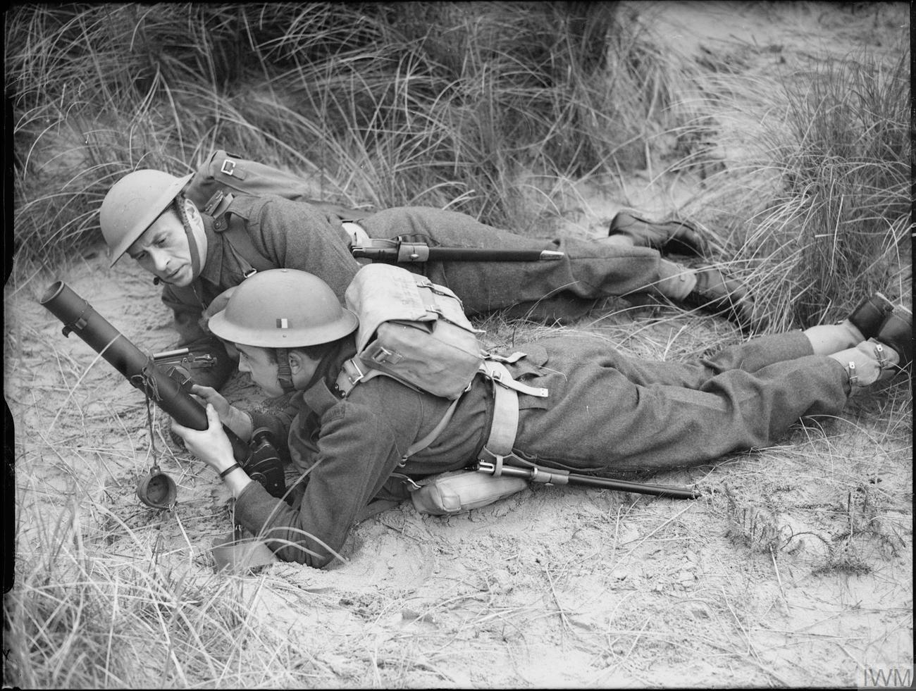 Allied Forces in the United Kingdom 1939-45 Belgian soldiers fire a 2-inch mortar during training at Tenby in Wales, 10 February 1941.